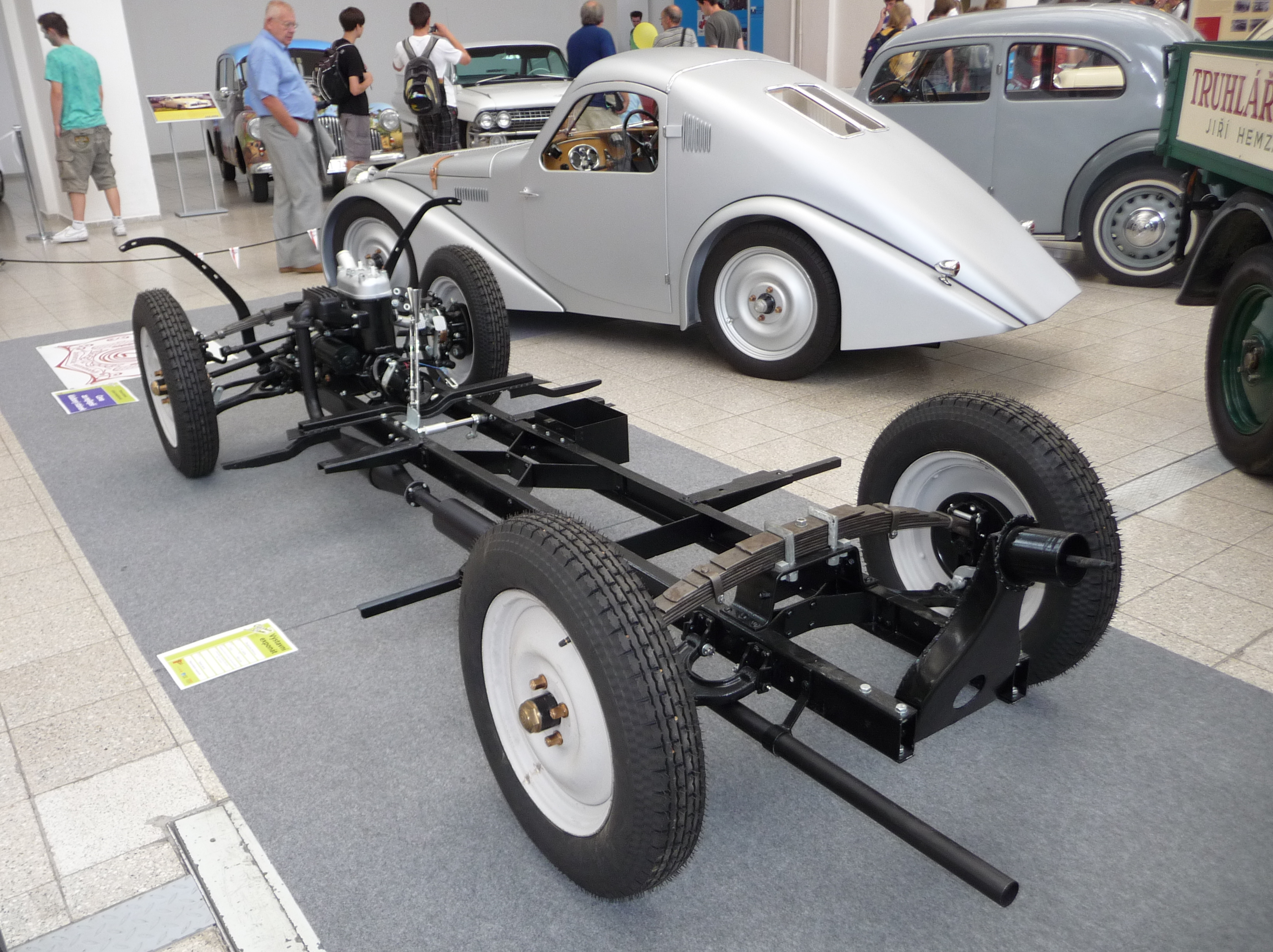 Zbrojovka Z 4, I. serie, chassis, 1933, Classic Show Brno 2011, The Brno Exhibition Grounds -10 -5 -3 -2 ◄ ► +2 +3 +5 +10